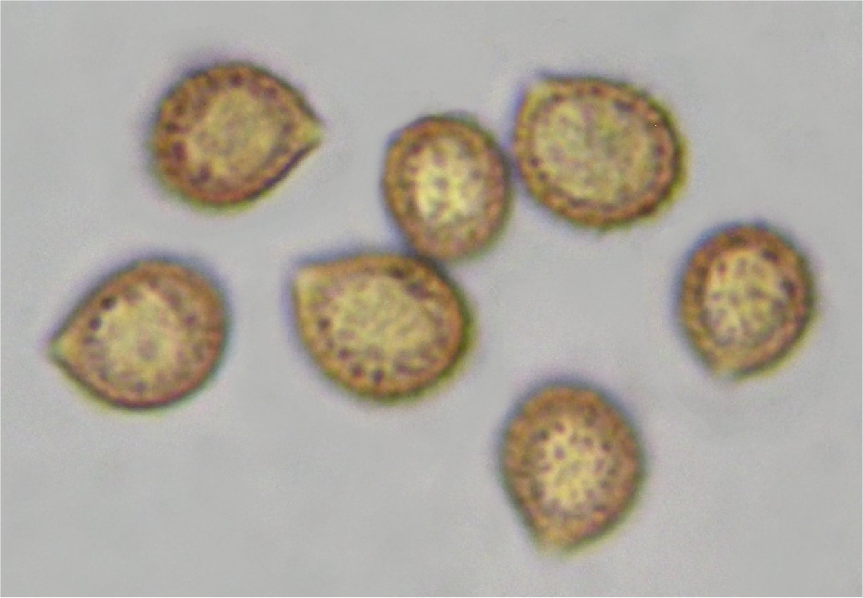 The basidiospores of Cortinarius delibutus Fr. Original mushroom specimens originated from Pirin Mountain, Bulgaria.